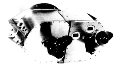 Optical unit assembly used on the Apollo Command Module to measure the apparent positions of stars in order to align the inertial measurement unit and to measure the angle between stars and landmarks on the earth or Moon to determine spacecraft position.